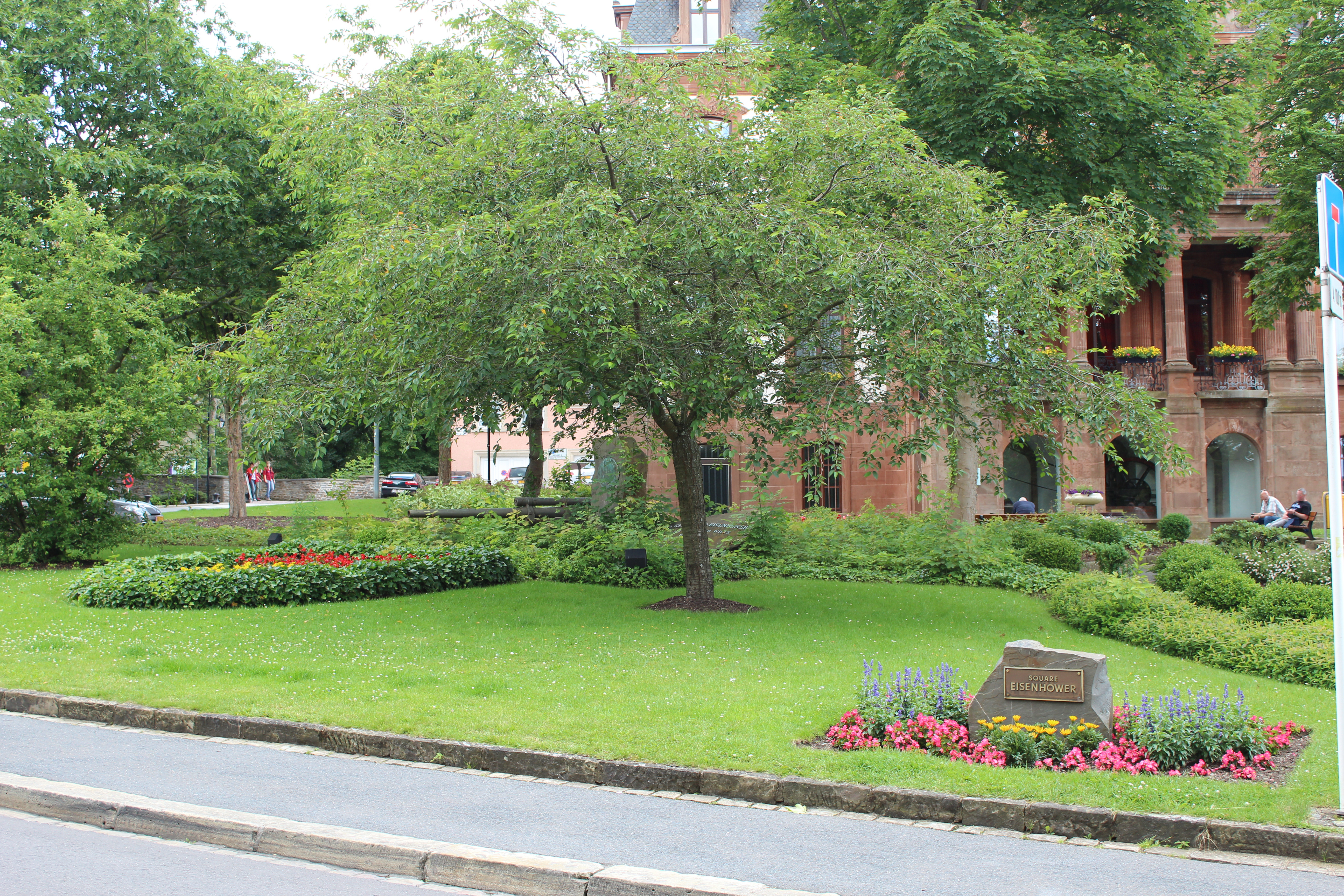 Square D, Eisenhower in Wiltz, Luxembourg